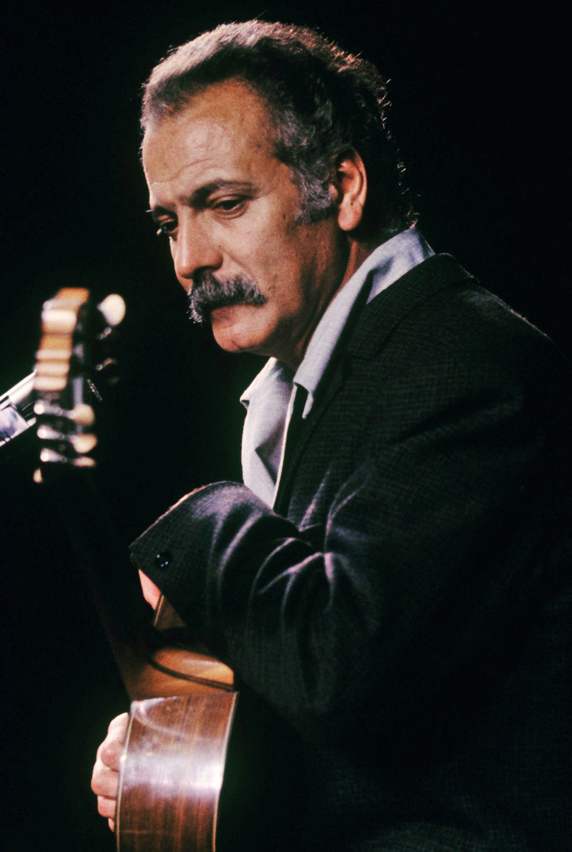 Georges Brassens in concert at the Théâtre national populaire, September-October 1966.